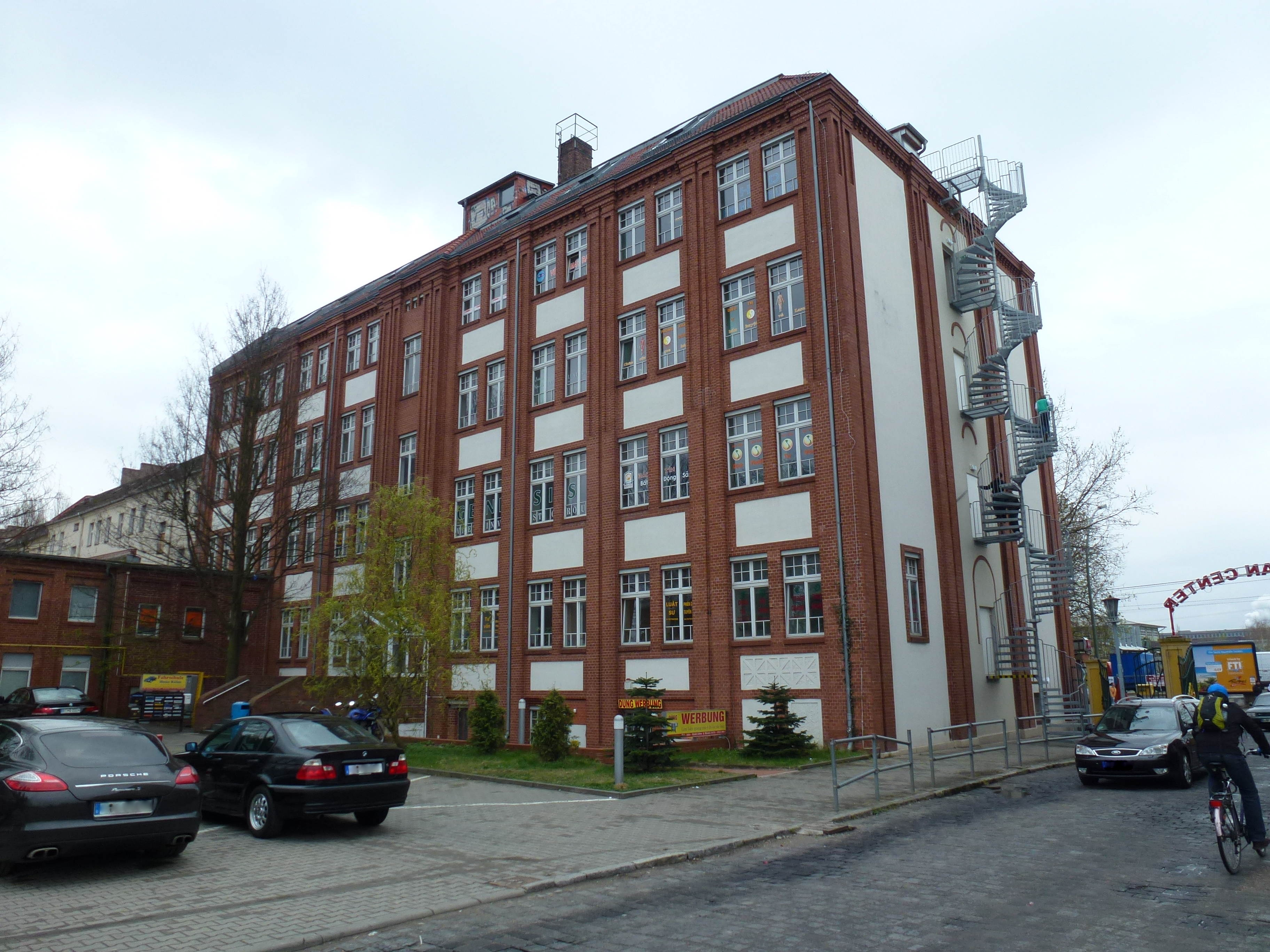 Berlin-Lichtenberg Dong Xuan Center